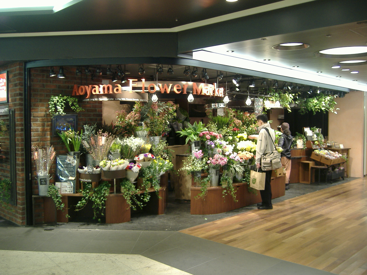 Aoyama Flower Market (Yokohama, Japan)